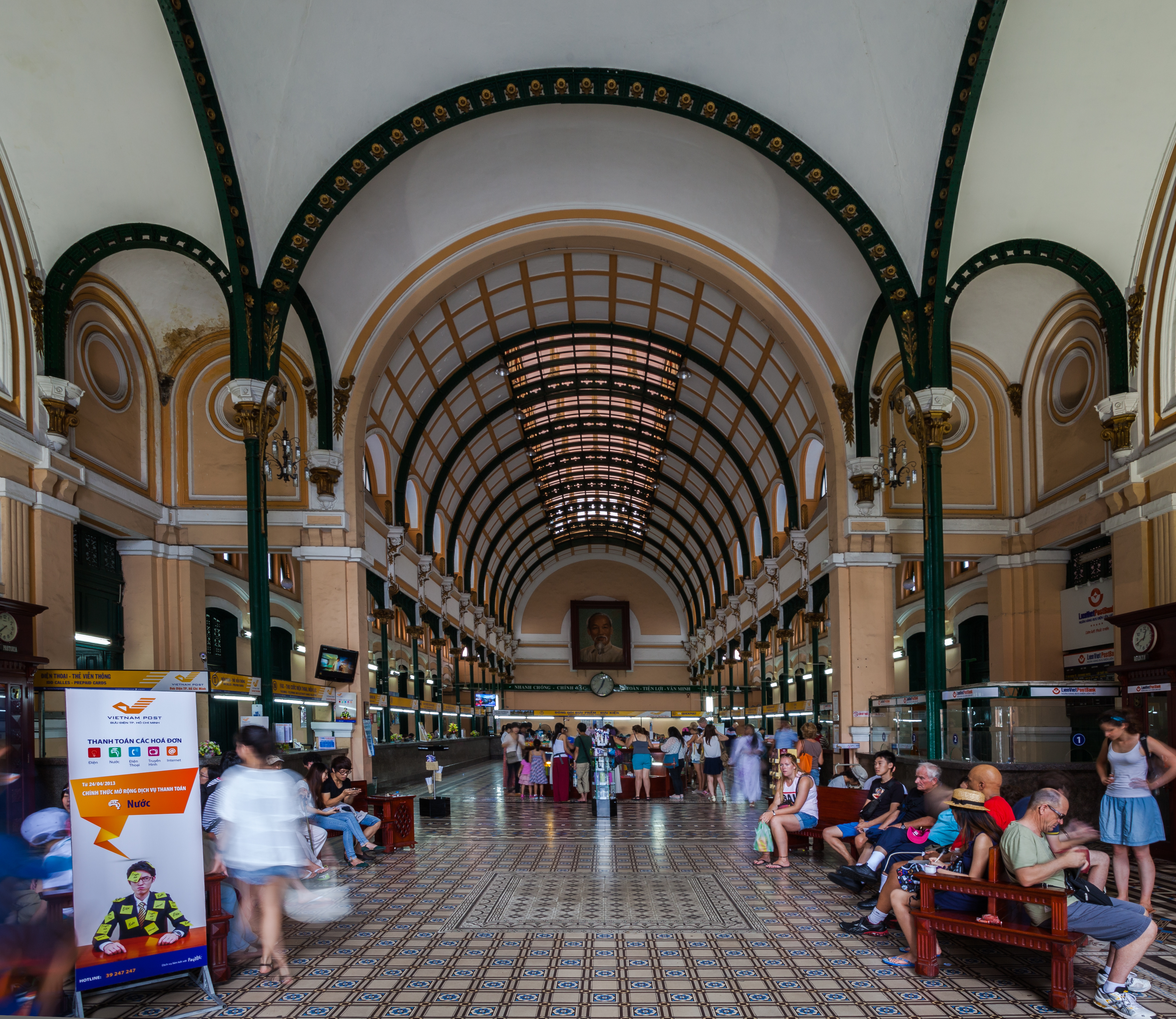 Central Post Office, Ho Chi Minh City, Vietnam